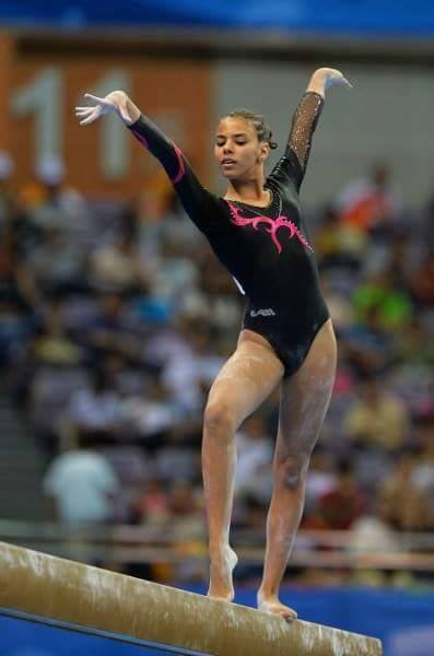 rahma mastouri yog nanjing 2014